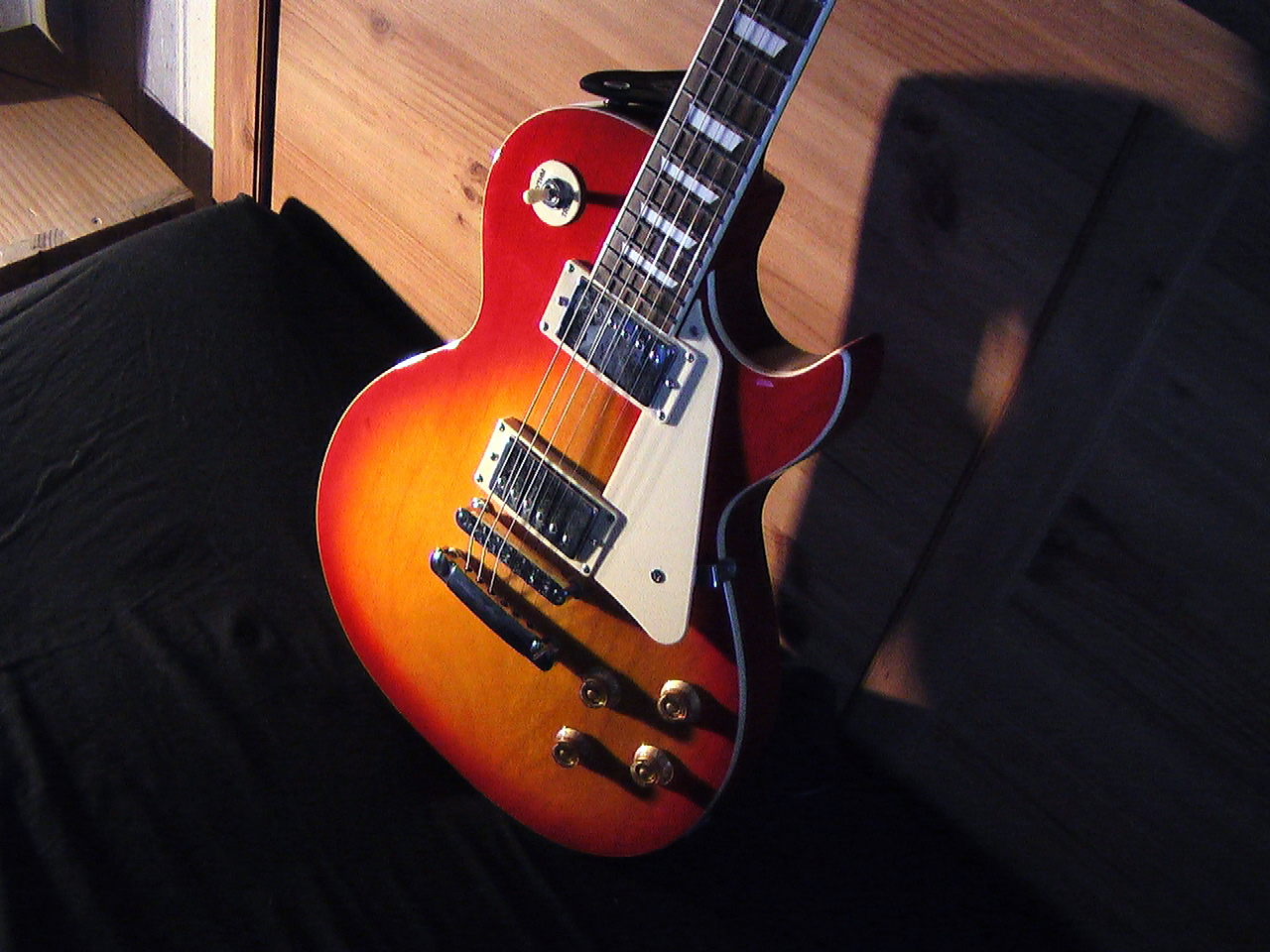 A Gibson Les Paul guitar.